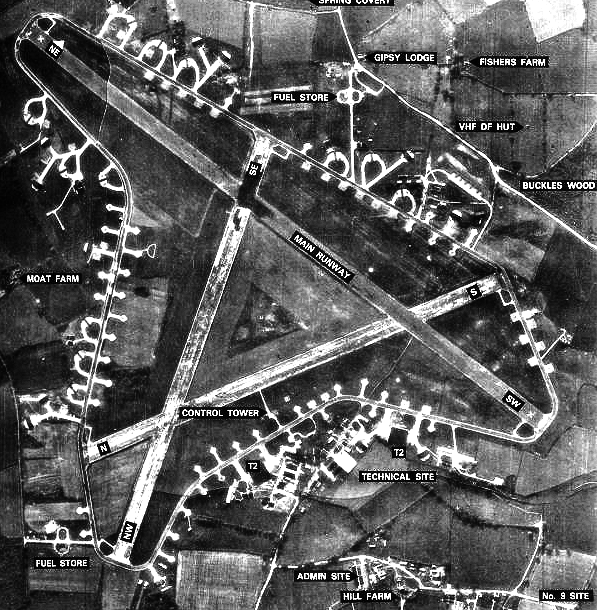 Aerial photograph of Leiston Airfield, England.